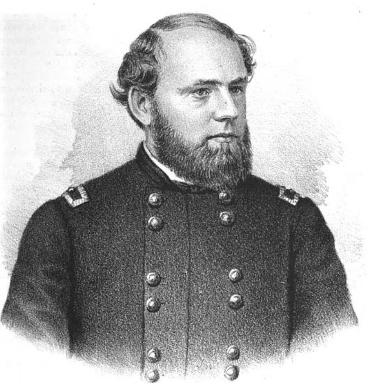 Brigadier General Cassius Fairchild, c.1866